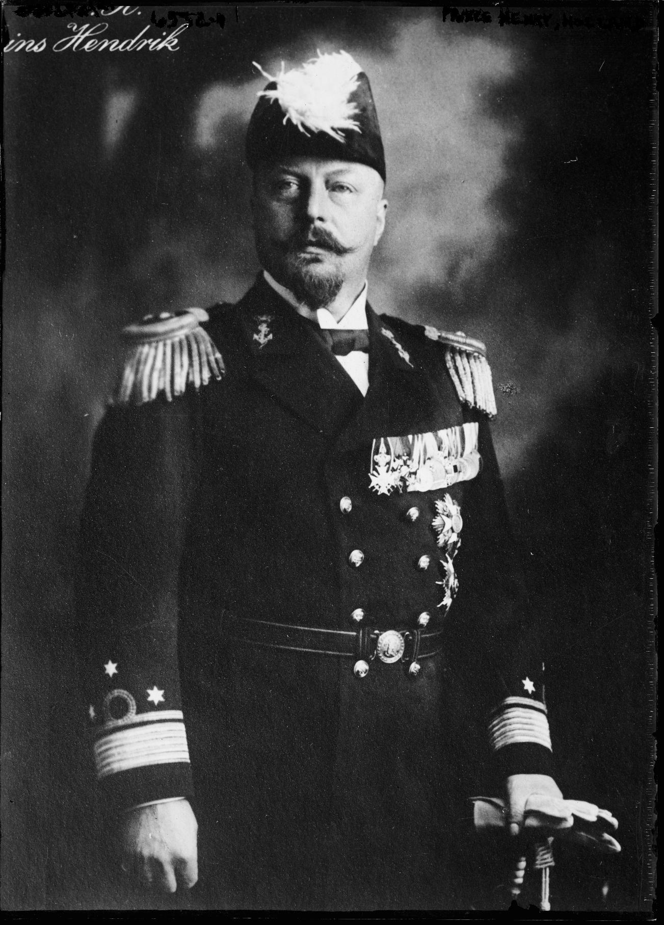 Prince Henry of Holland